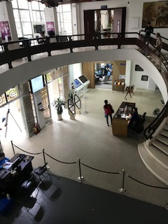 Entrance and help desk